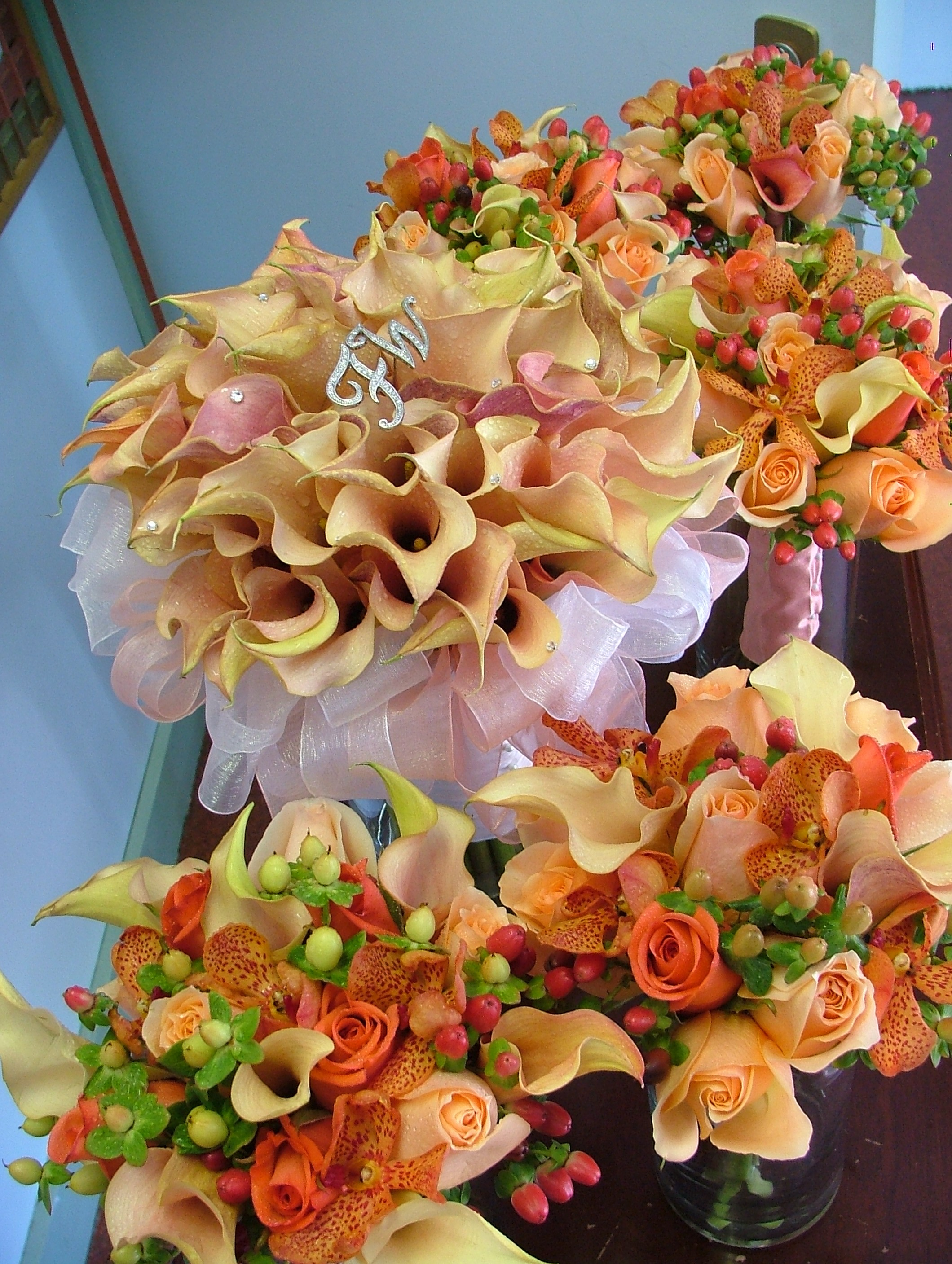 Bride's bouquet of peach calla lillies, and bridesmaids bouquets, mixed assorted flowers